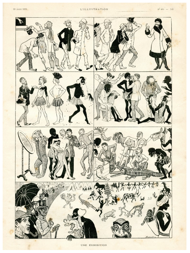 Une exhibition, comic strip published in L'Illustration issue 2634, Paris. Signed "Malatesta".